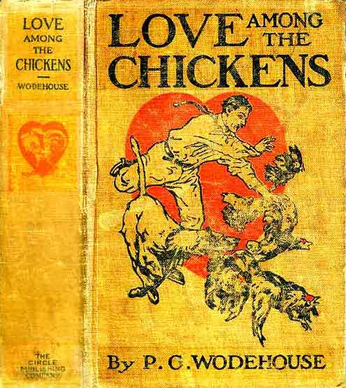 Cover of a Circle Publishing edition of Love Among the Chickens by P. G. Wodehouse.